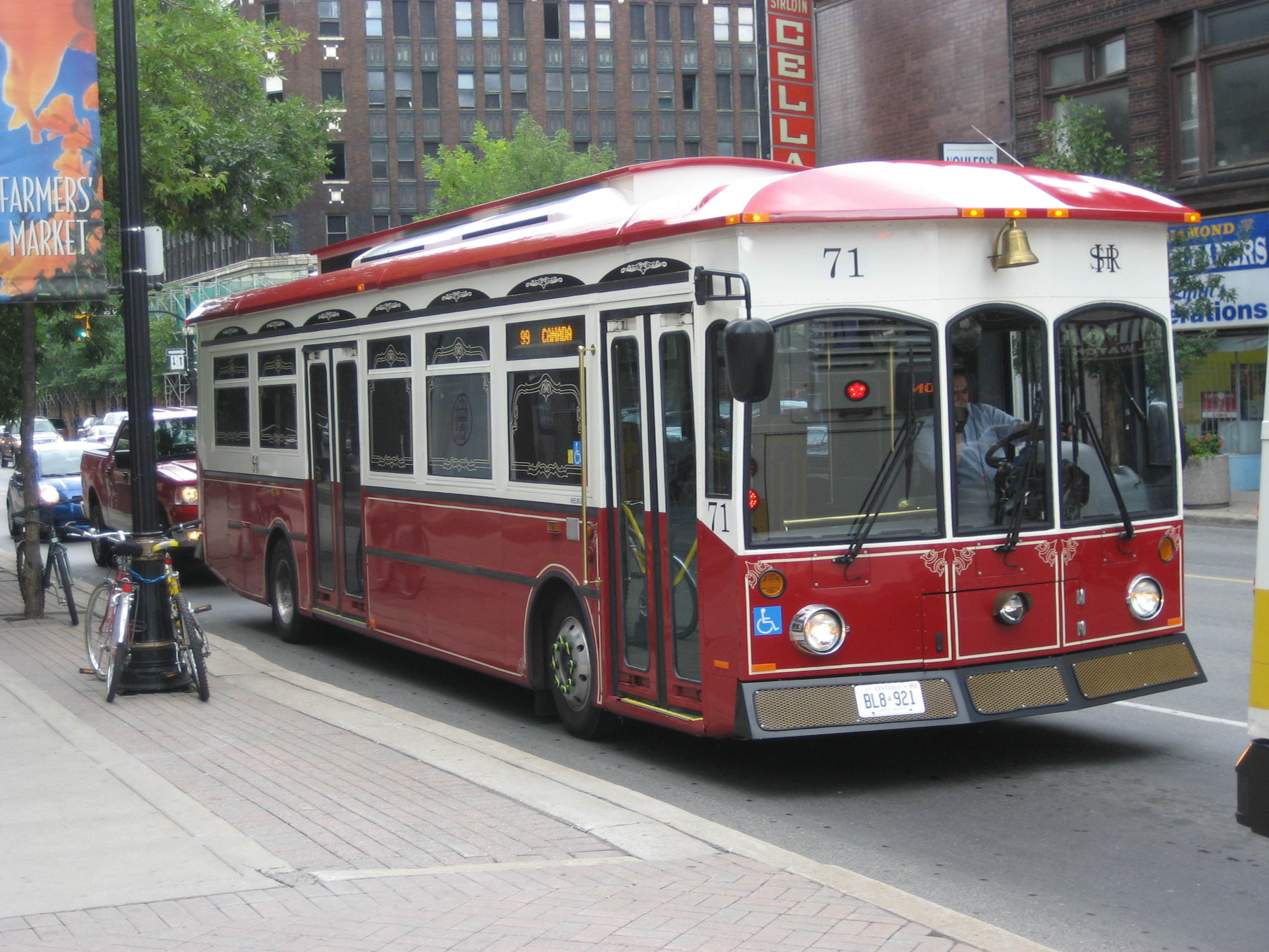 Hamilton trolley-replica bus, Waterfront Shuttle, Hamilton, Ontario.